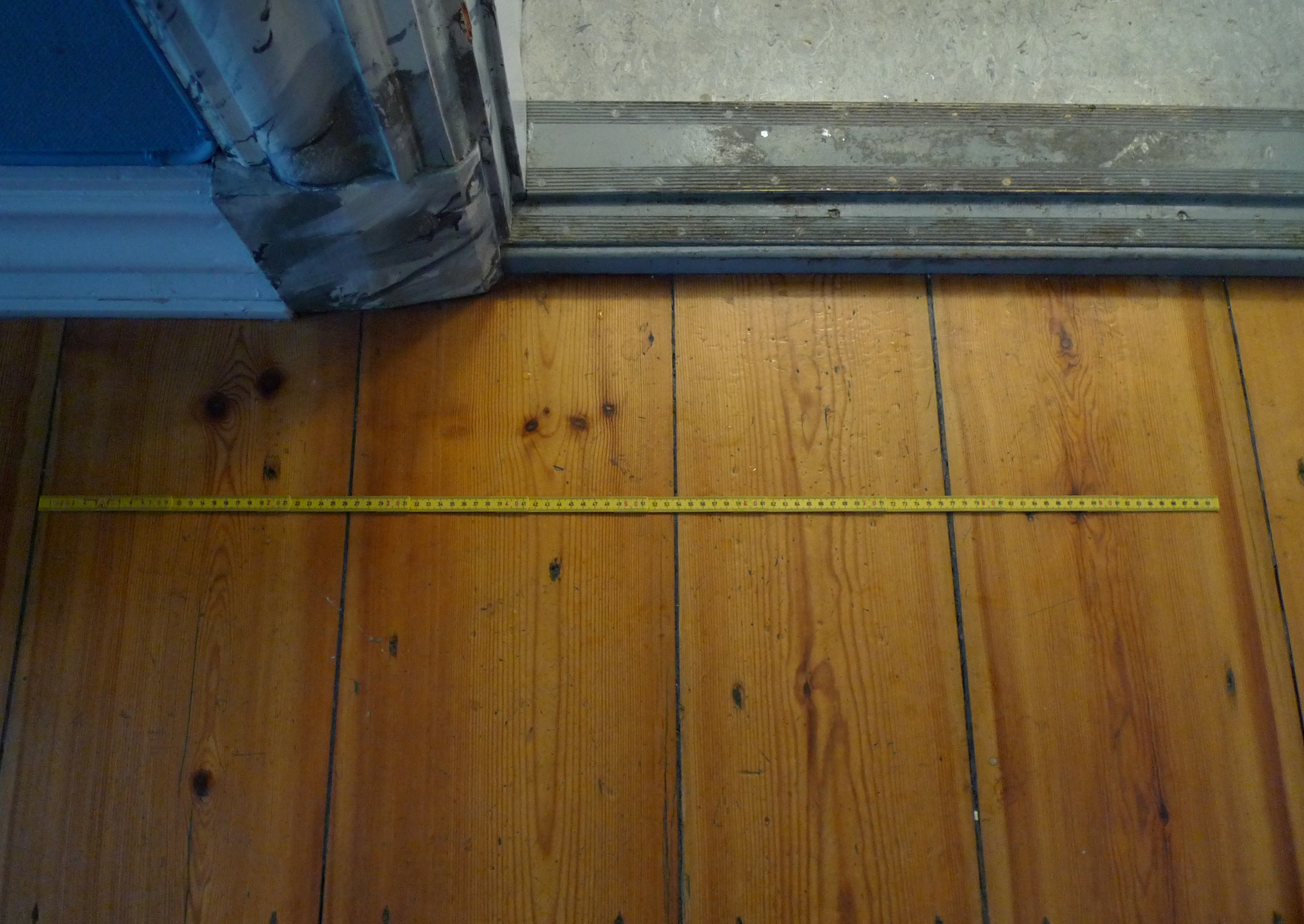 The floor boards of Lerchendal gård (=manor), Trondheim, Norway are exceptionally wide; approximately 11 inches each.